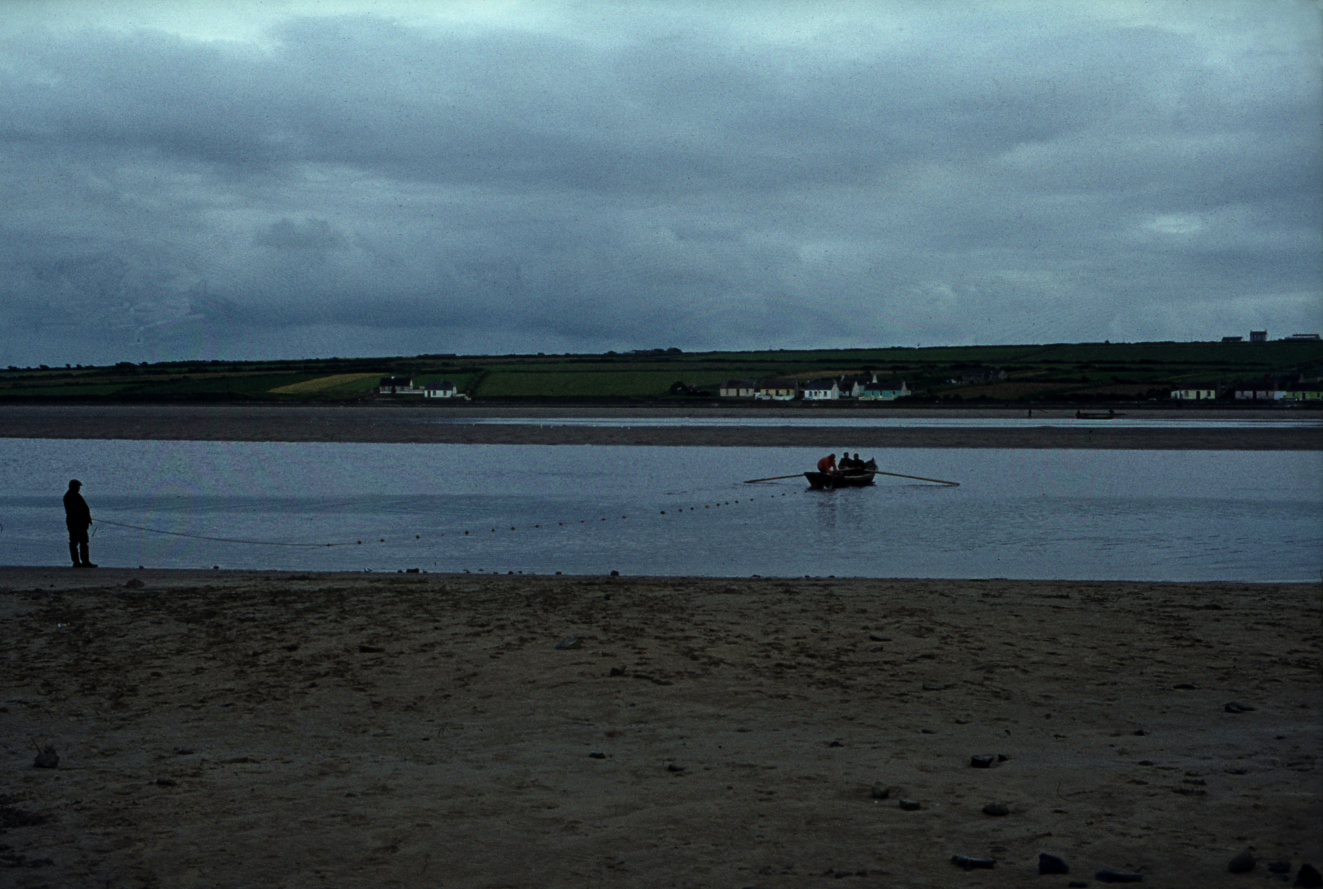 Beach seine fishing for salmon in the River Feale in County Kerry, Ireland